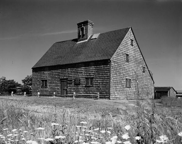 Jethro Coffin House, Sunset Hill, Nantucket, Nantucket County, Massachusetts - south and east elevations.